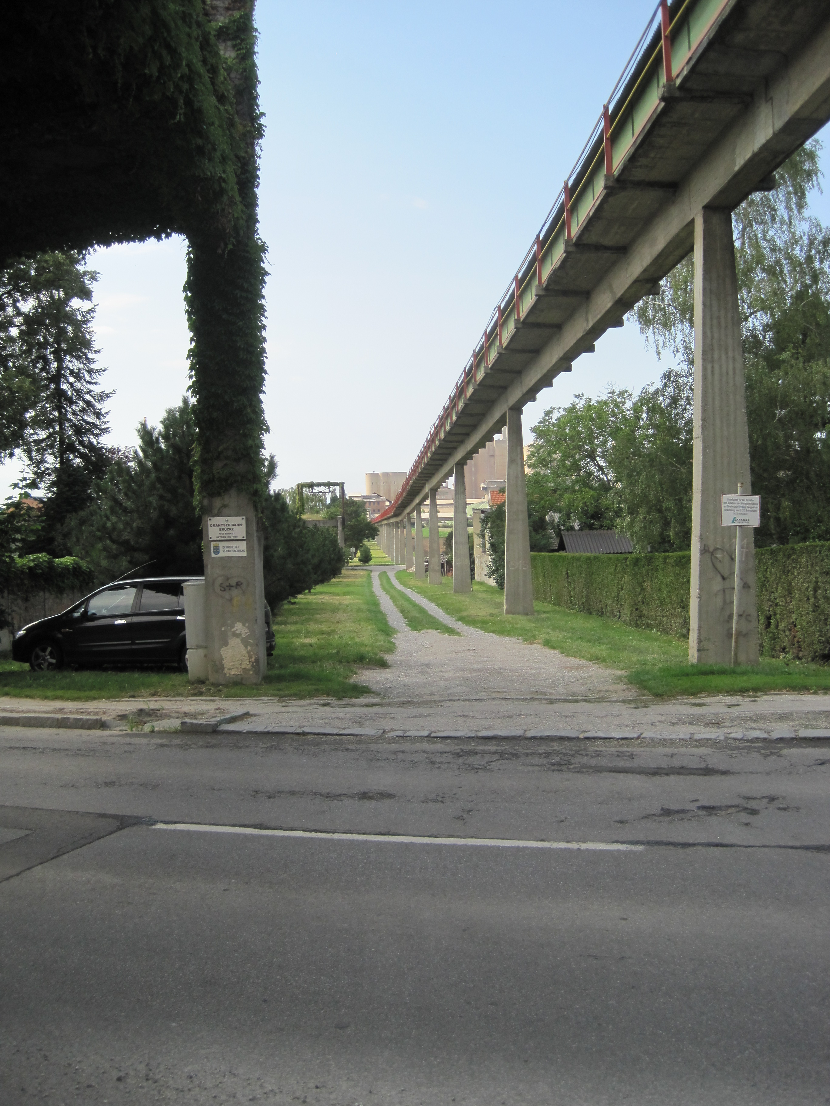 A conveyor device that transports limestone from quarry to factory, passing through the town of Mannersdorf am Leithagebirge in Austria. On the left are the supports for a former funicular system that served the same function until 1960. In the background is the Lafarge-Perlmooser plant fed by the system.